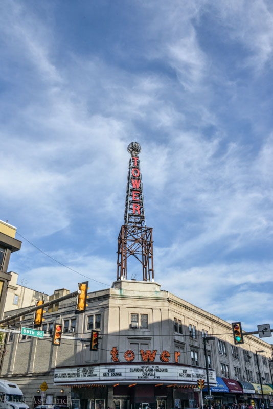 August 29th, 2014